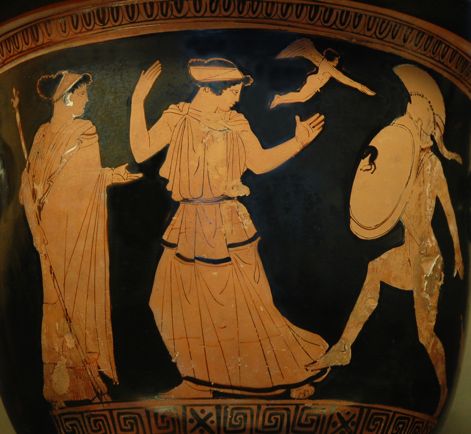 Menelaus intends to strike Helen; struck by her beauty, he drops his swords. A flying Eros and Aphrodite (on the left) watch the scene. Detail of an Attic red-figure crater, ca. 450–440 BC, found in Gnathia (now Egnazia, Italy).